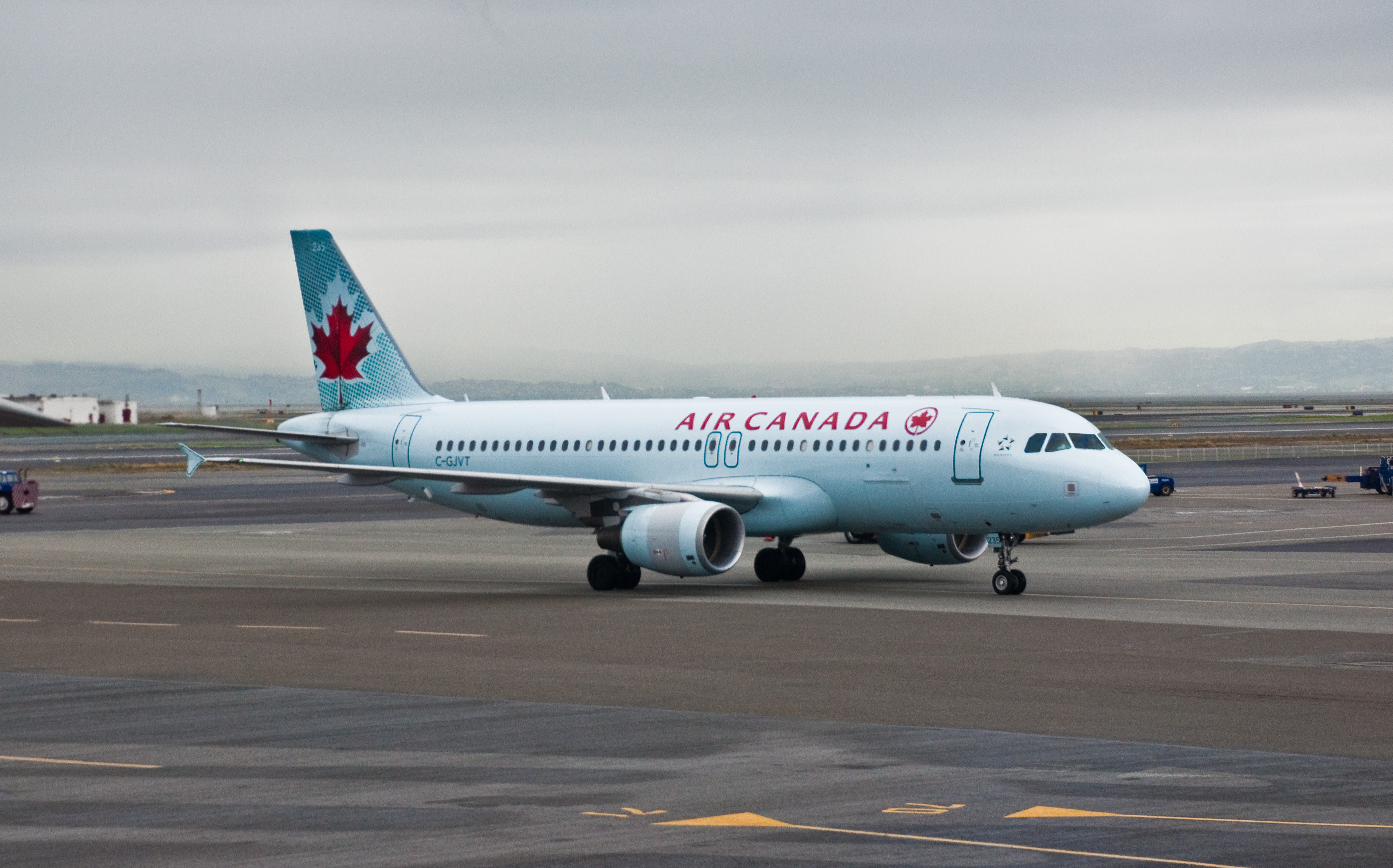 Air Canada Airbus A320, SFO, Nov. 2009.